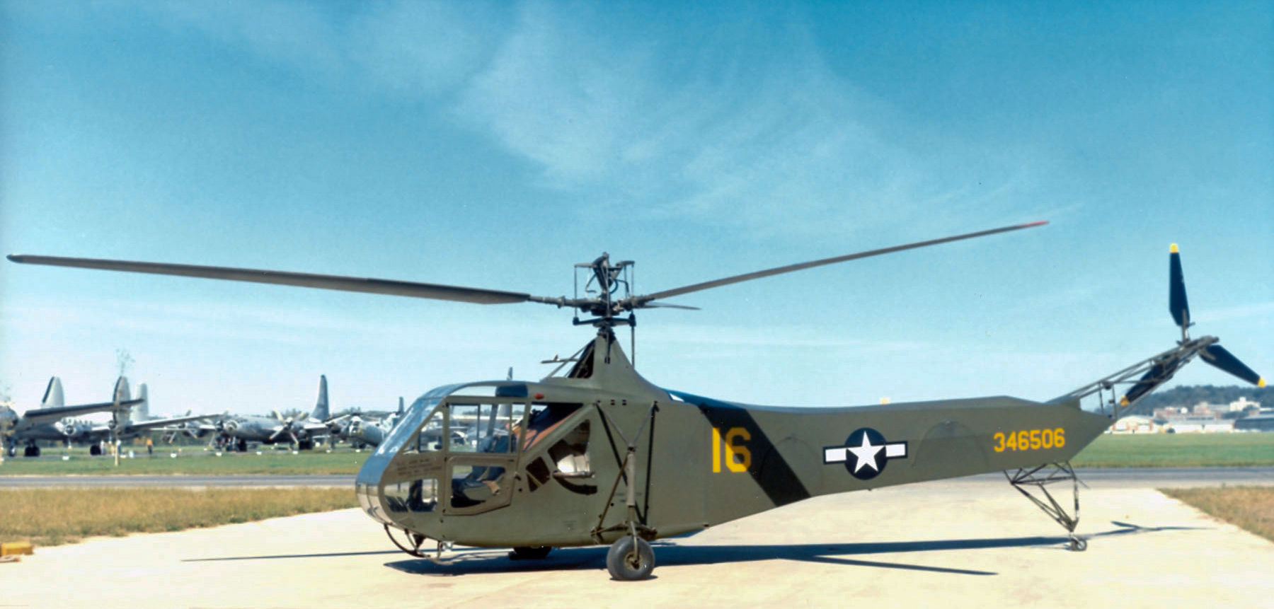 A Sikorsky R-4B Hoverfly helicopter (s/n 43-46506) at the National Museum of the United States Air Force at Dayton, Ohio (USA).